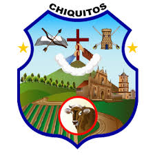 Shield Of Chiquitos